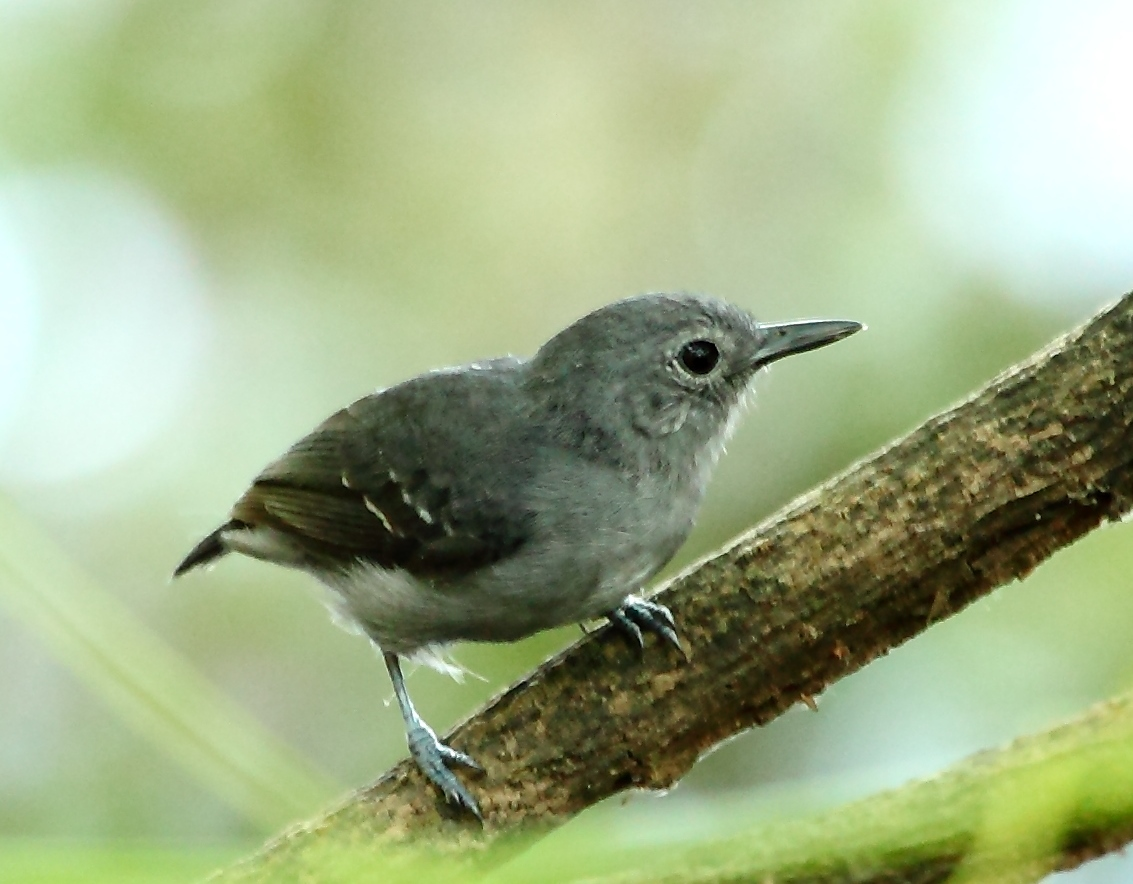 Leaden antwren (male) at Iranduba - Amazonas - Brazil